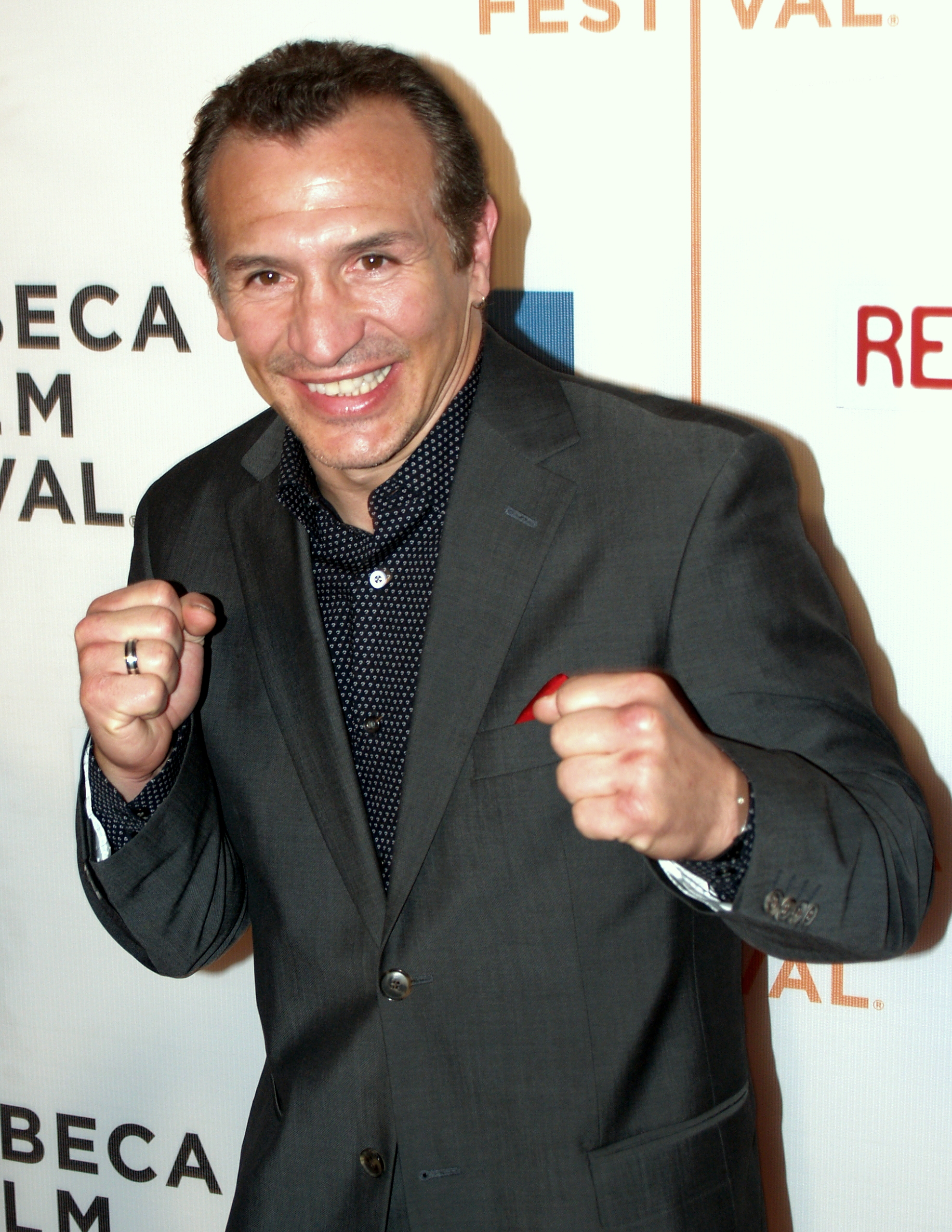 Ray Mancini at the premiere of Redbelt at the 2008 Tribeca Film Festival. Photographer's blog post about this image.